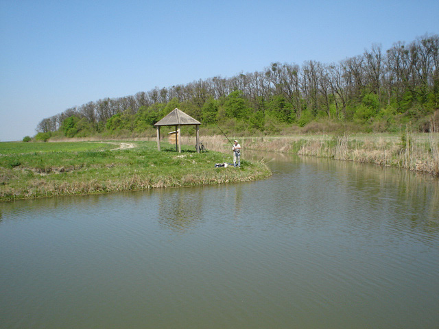 Gmajna Fishing Site nearby Gmajna (kanal)